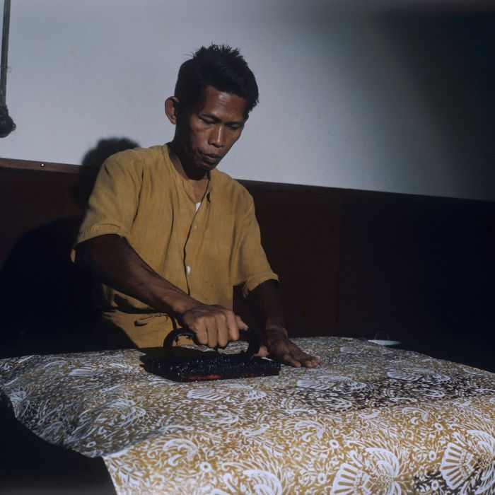 A batik worker with a wax stamp